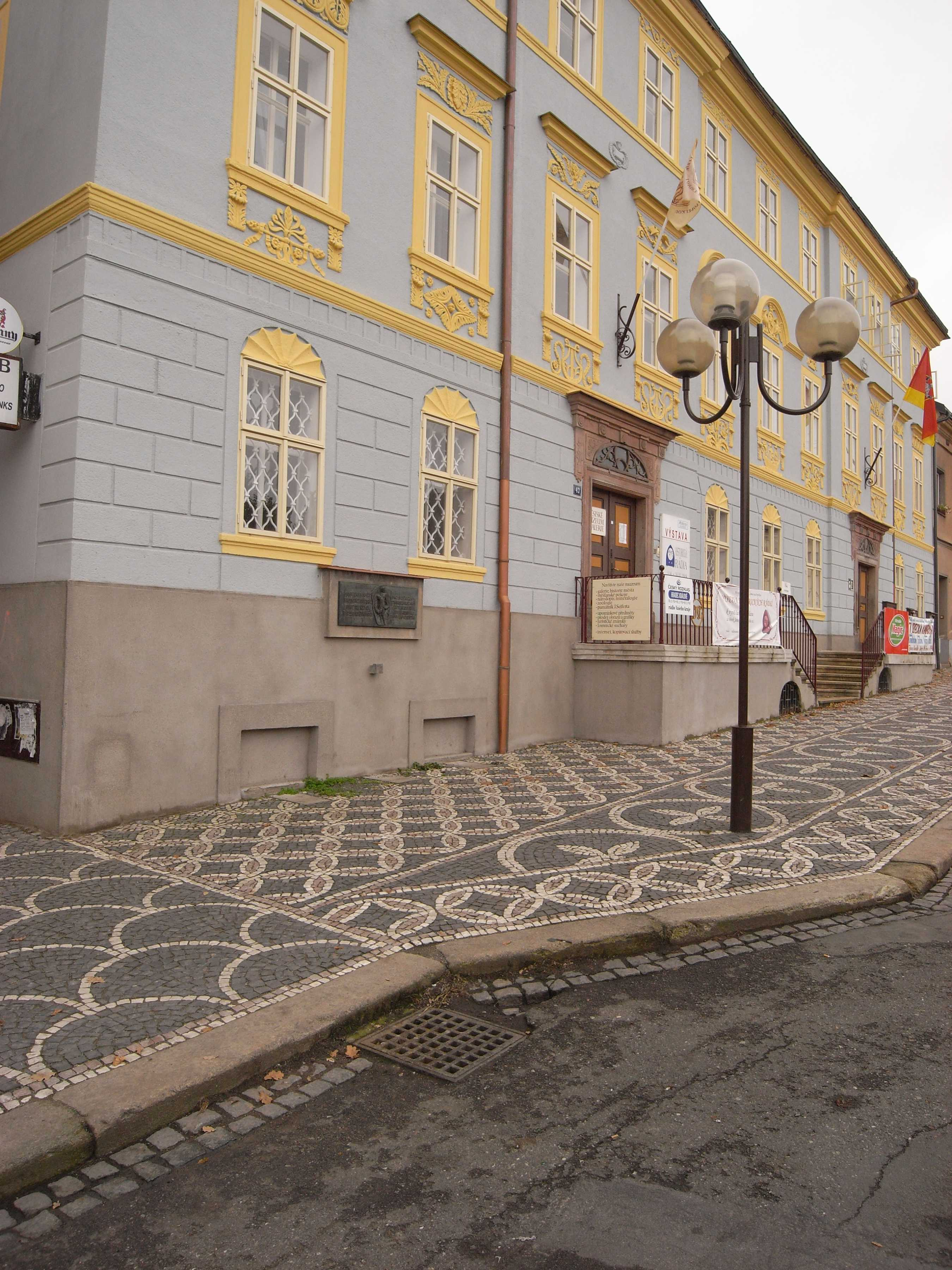 city museum and marble/limestone cobblestones (Lomnice nad Popelkou / Czech Republic) address: Husovo náměstí 43